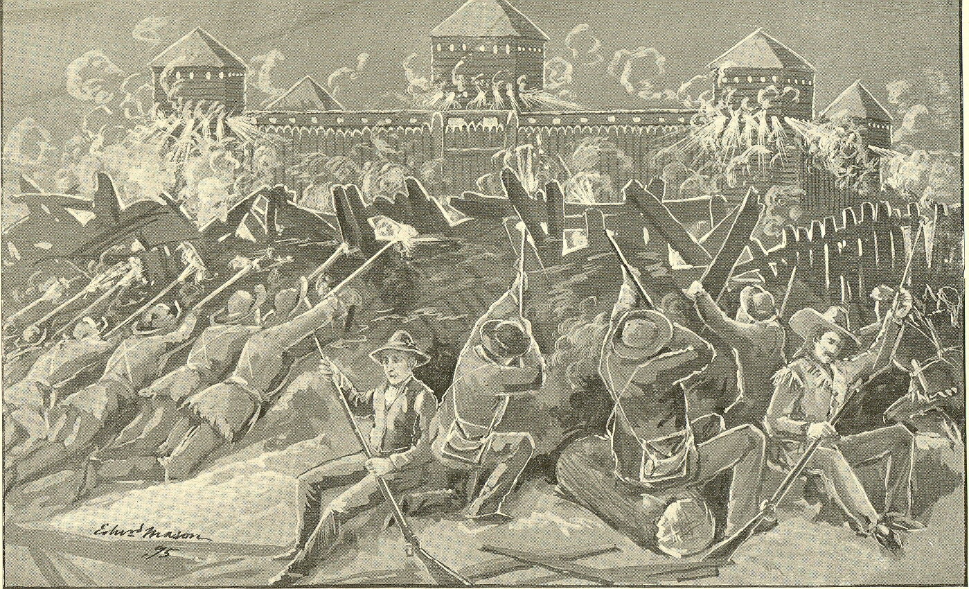 Illustration of the night attack on Fort Sackville (Vincennes, Indiana), 23 February 1779, during the American Revolutionary War